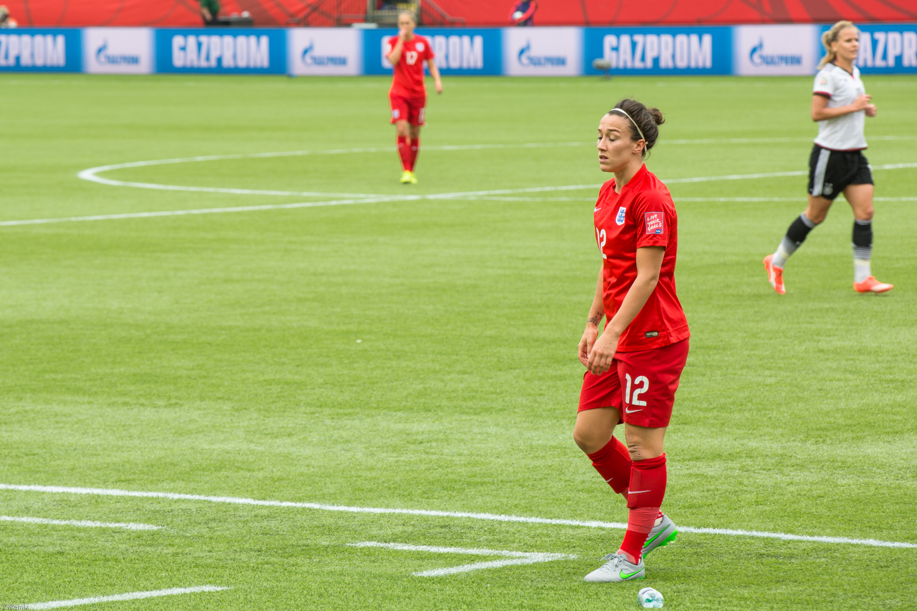 FIFA Women's World Cup Canada 2015 - Edmonton